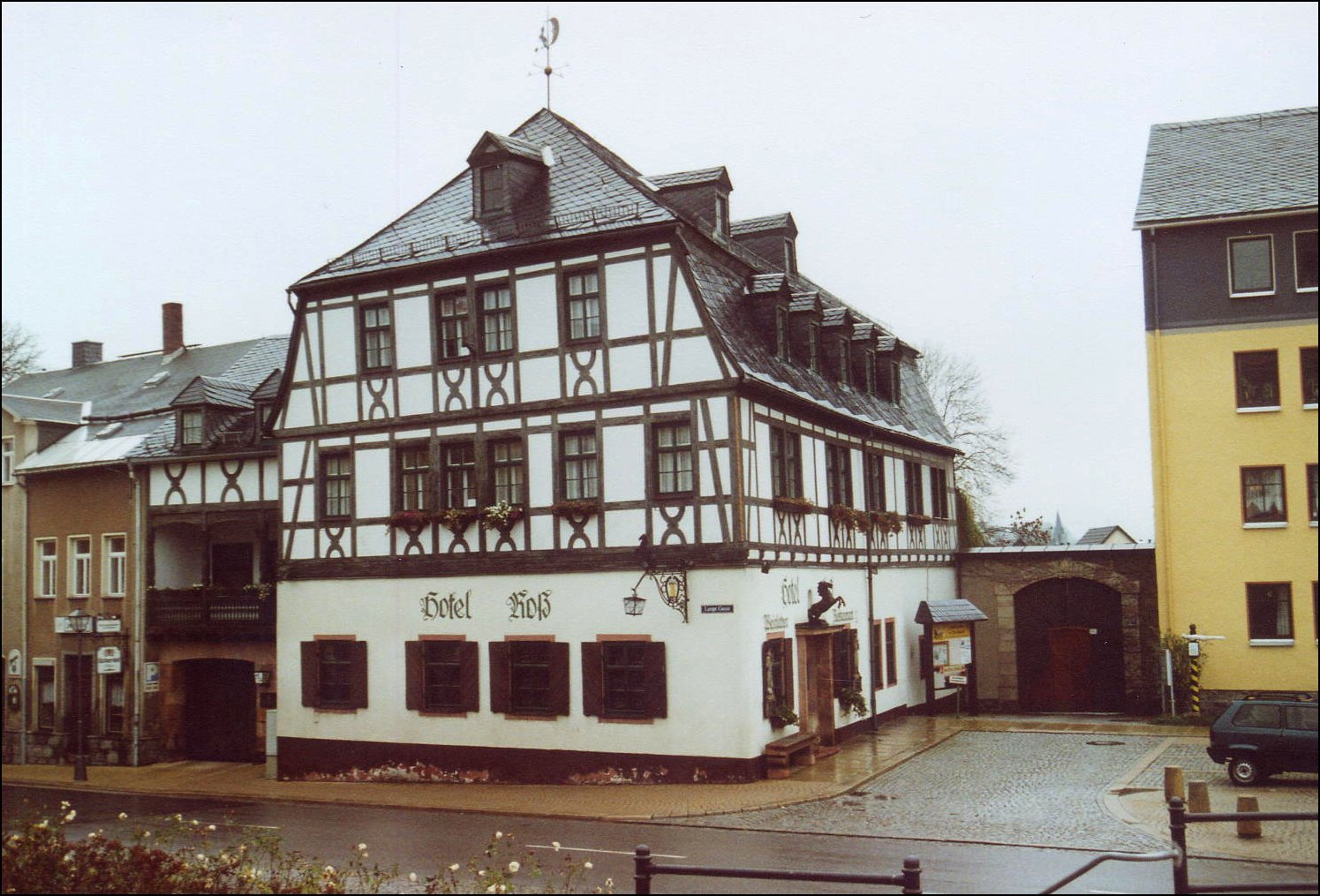 This image shows the hotel "Roß" ("horse") in Zwönitz in the Ore Mountains in Saxony.